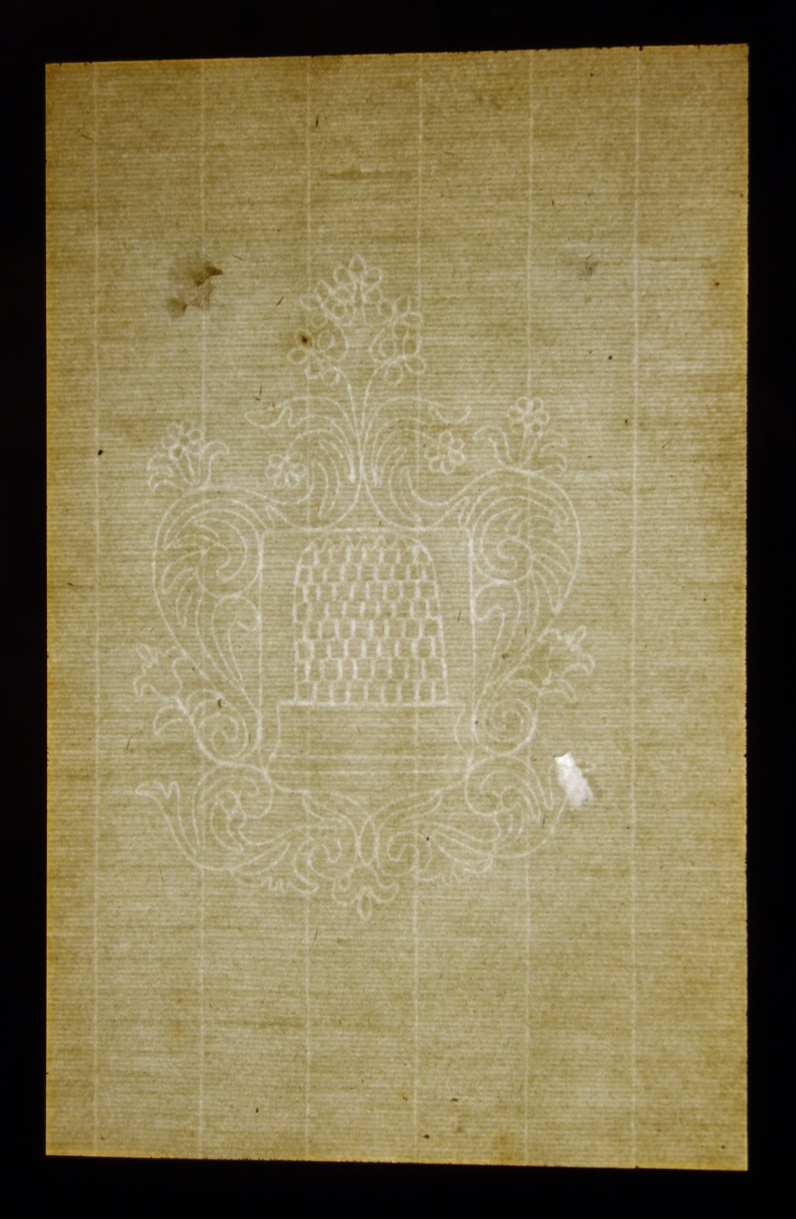 Exhibit in the Robert C. Williams Paper Museum, Atlanta, Georgia, USA. This work is old enough so that it is in the public domain.